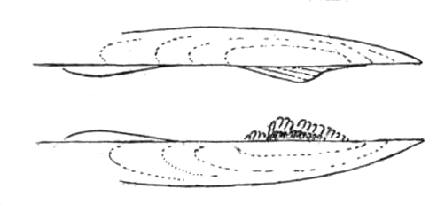 Drawing of the detail of valves from the top of Cucumerunio websteri.